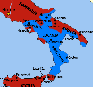 Western Mediterranean during the 2nd Punic War. Blue - Carthage, Light Blue - Carthaginian allies, Italian cities who allied with Hannibal. Northern Italian tribes who allied with Hannibal are in blue font. Red - Rome, pink - Roman allies.